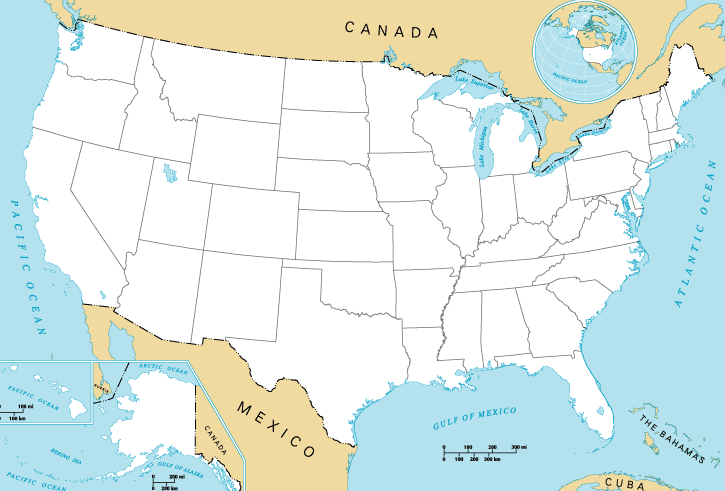 Map of the United States of America.